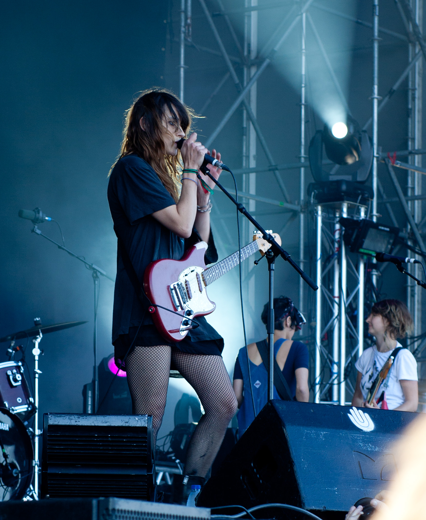 Warpaint